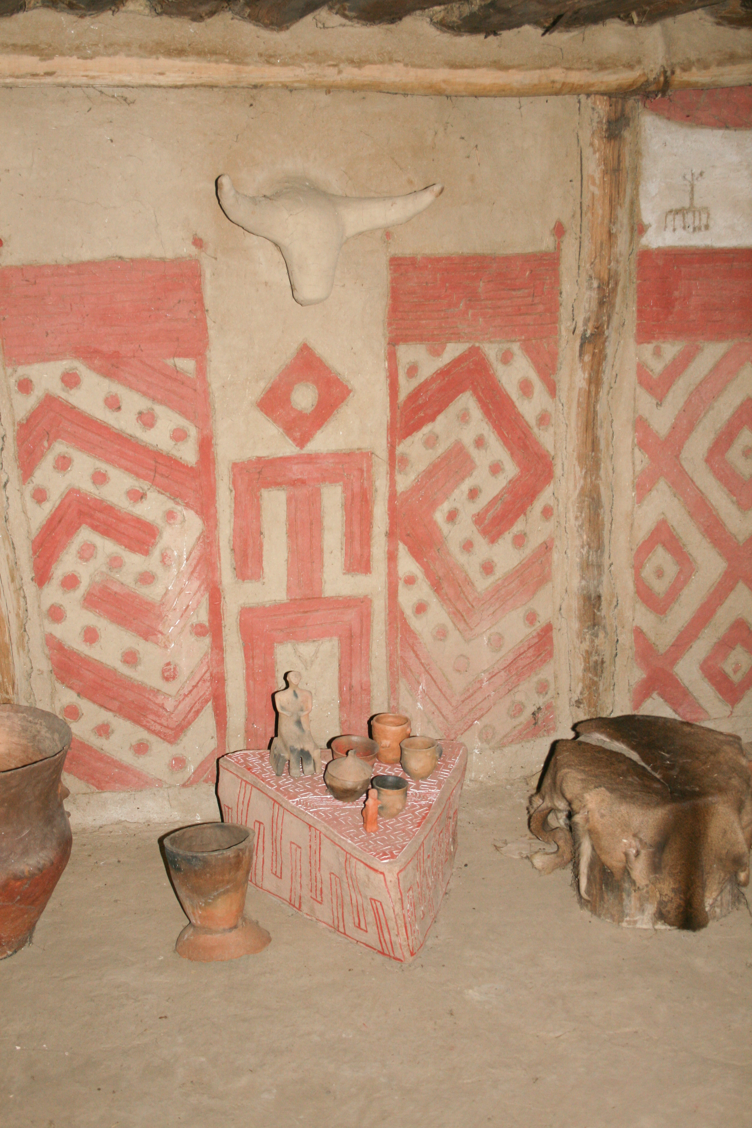 Neolithic house, inside, reconstruction